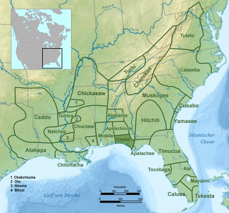 Tribal territory of Chatots during sixteenth century